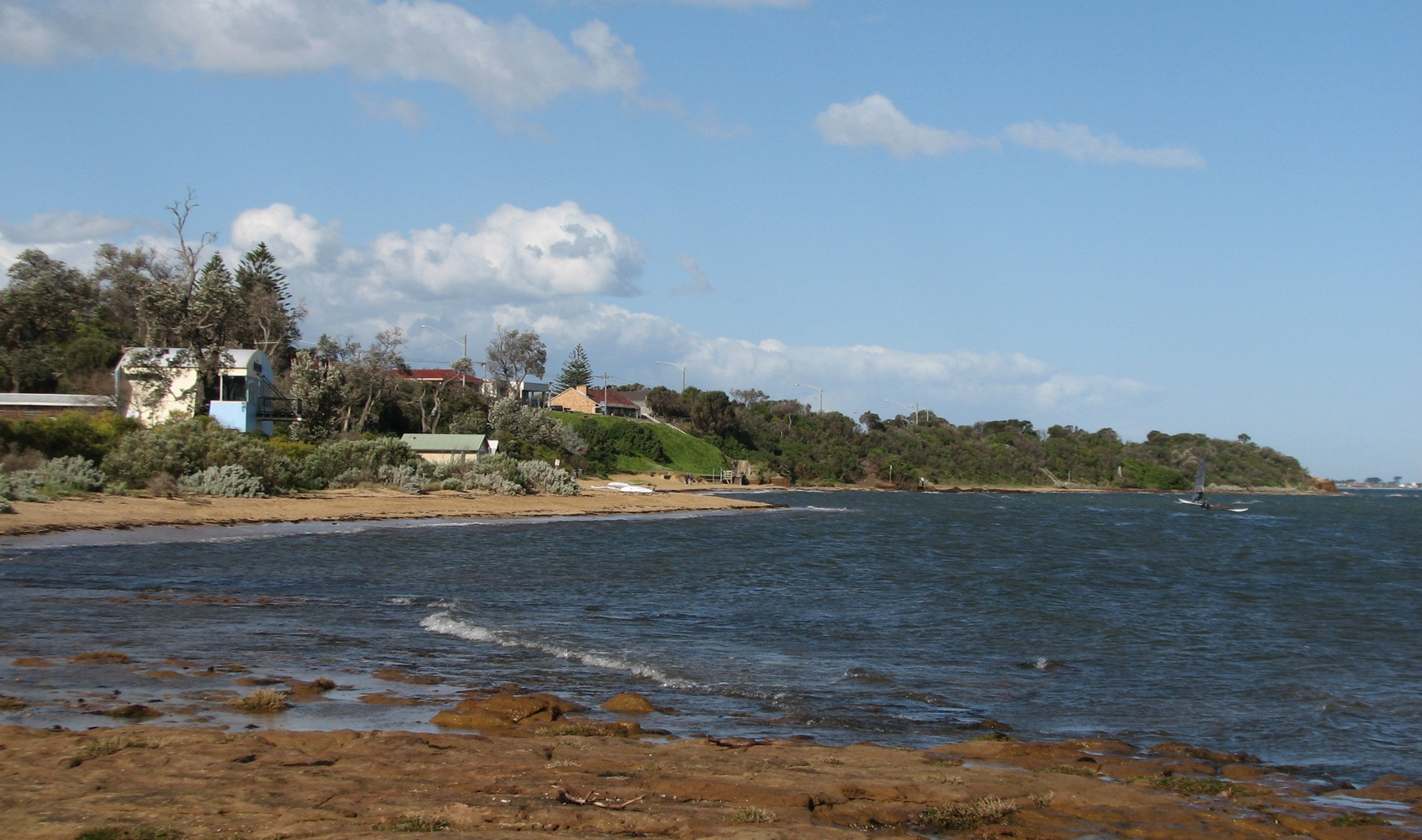 Watkins Bay from Ricketts Point, Beaumaris, Victoria, Australia